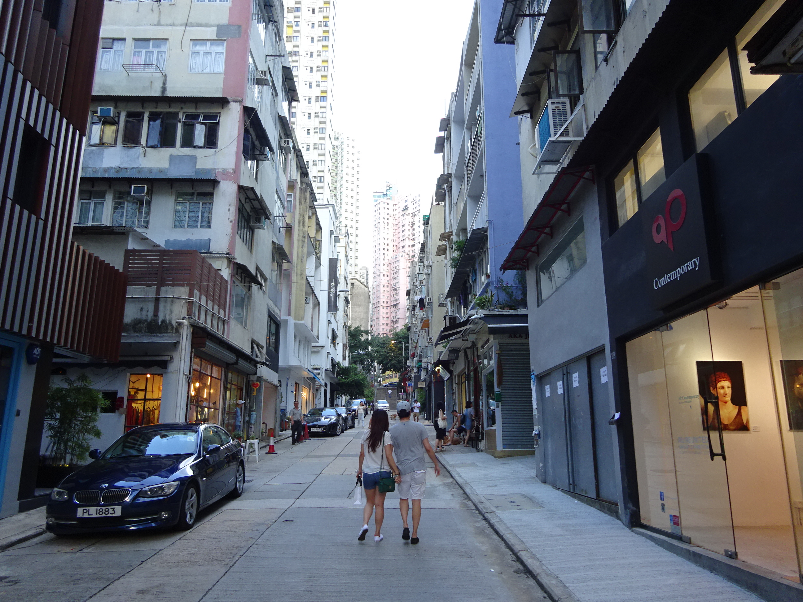 上環 太平山街 Tai Ping Shan Street, Upper Station Street, Sheung Wan, Hong Kong